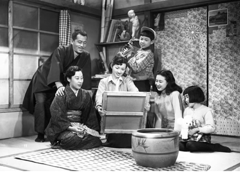 From left to right: Chishū Ryū, Isuzu Yamada, Hideko Takamine and children in Waga ya wa tanoshi (1951) directed by Noboru Nakamura